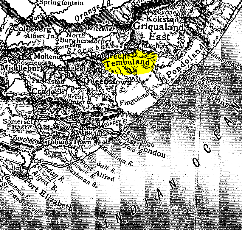 Old map of the Eastern Cape showing Tembuland and surrounding areas.